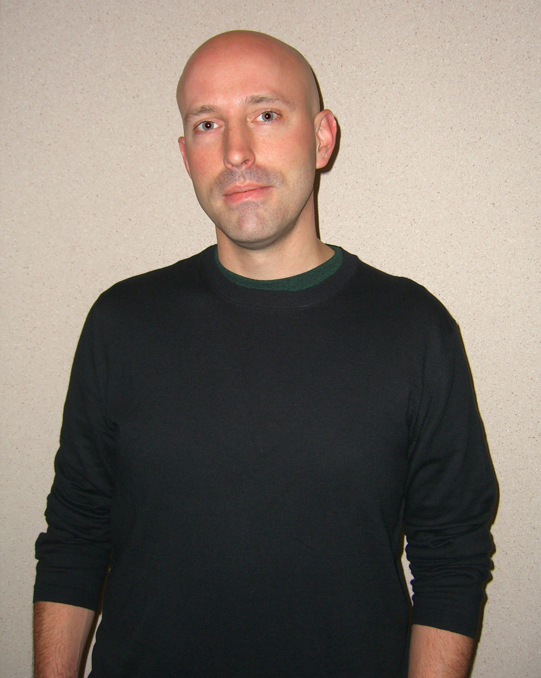 Comics creator Brian K. Vaughan on Day 2 of the 2012 New York Comic Con, Friday October 12, 2012 at the Jacob K. Javits Convention Center in Manhattan. This photo was created by Luigi Novi. It is not in the public domain, and use of this file outside of the licensing terms is a copyright violation.